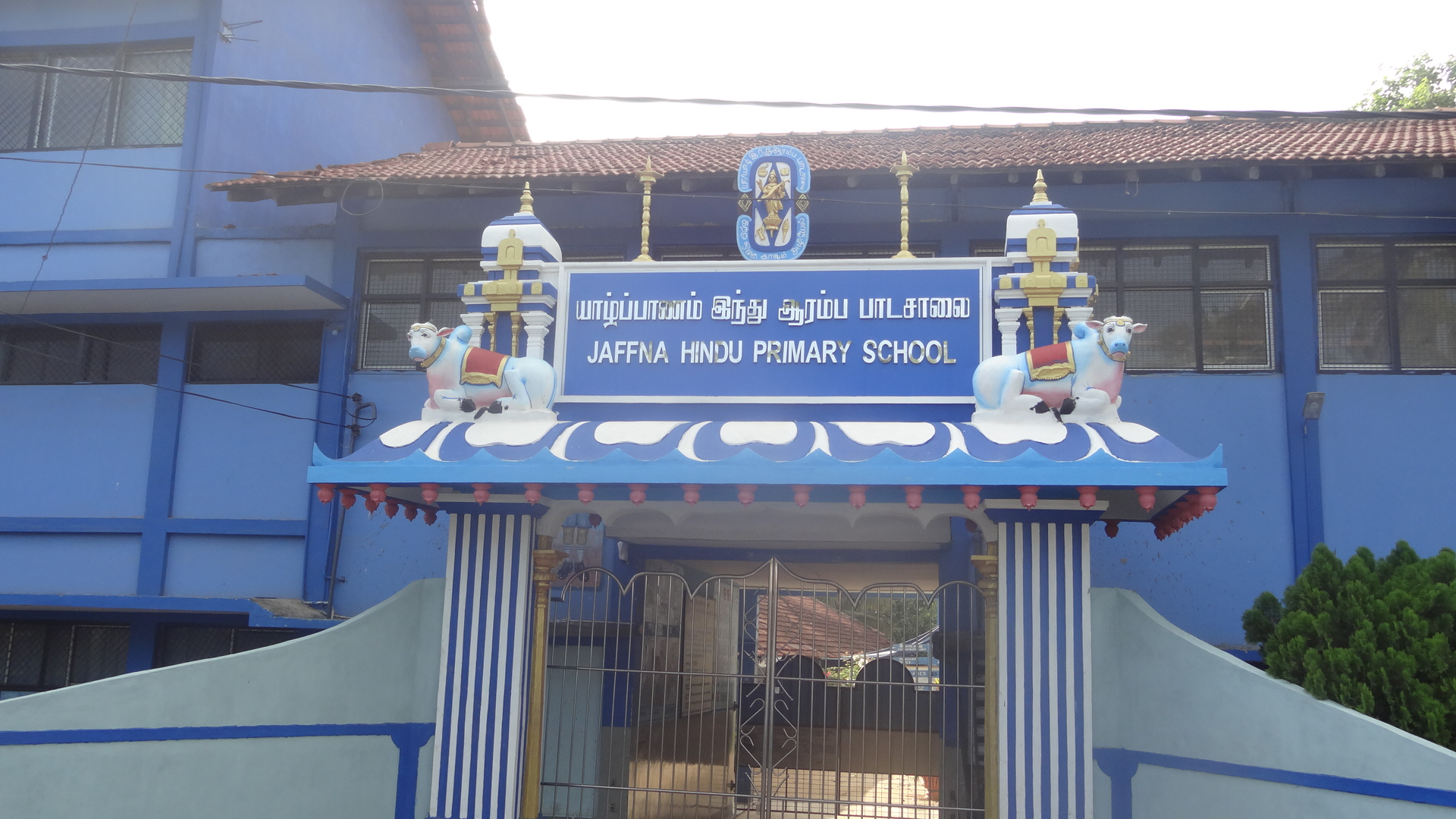 jaffna hindu primary school